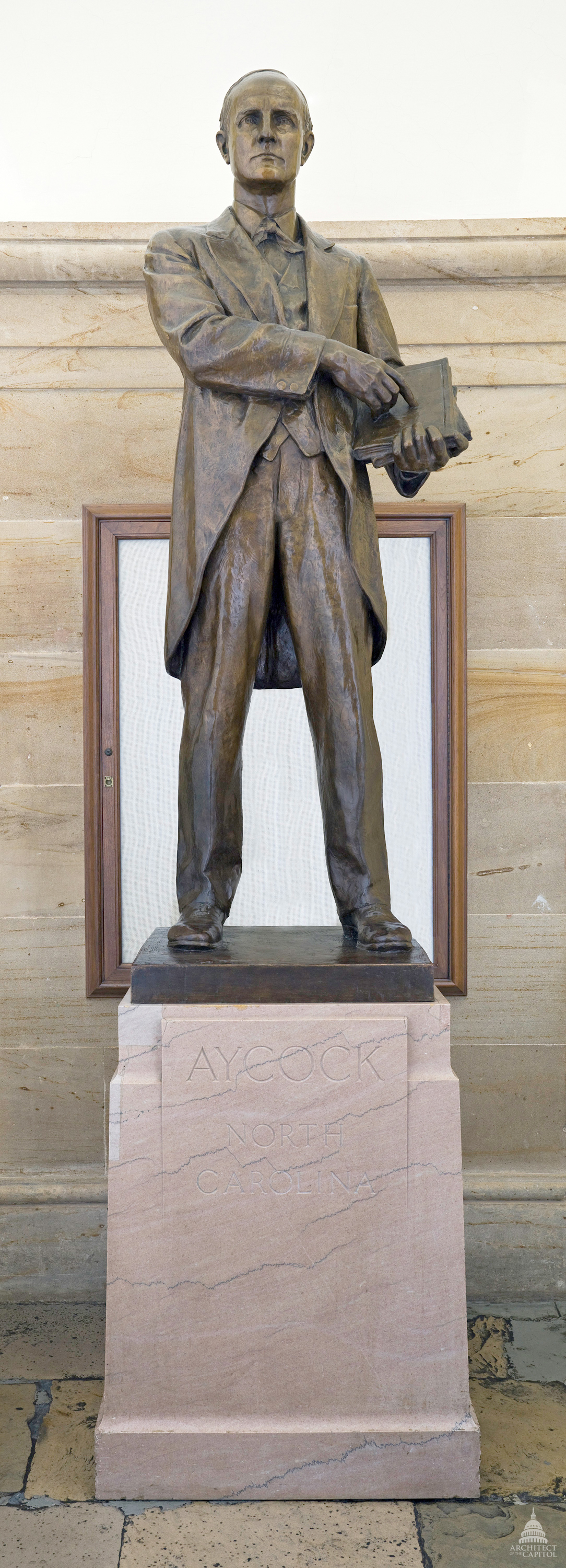 Charles Brantley Aycock (1859-1912) North Carolina Bronze by Charles Keck Given in 1932 Crypt U.S. Capitol This official Architect of the Capitol photograph is being made available for educational, scholarly, news or personal purposes (not advertising or any other commercial use). When any of these images is used the photographic credit line should read “Architect of the Capitol.” These images may not be used in any way that would imply endorsement by the Architect of the Capitol or the United States Congress of a product, service or point of view. For more information visit